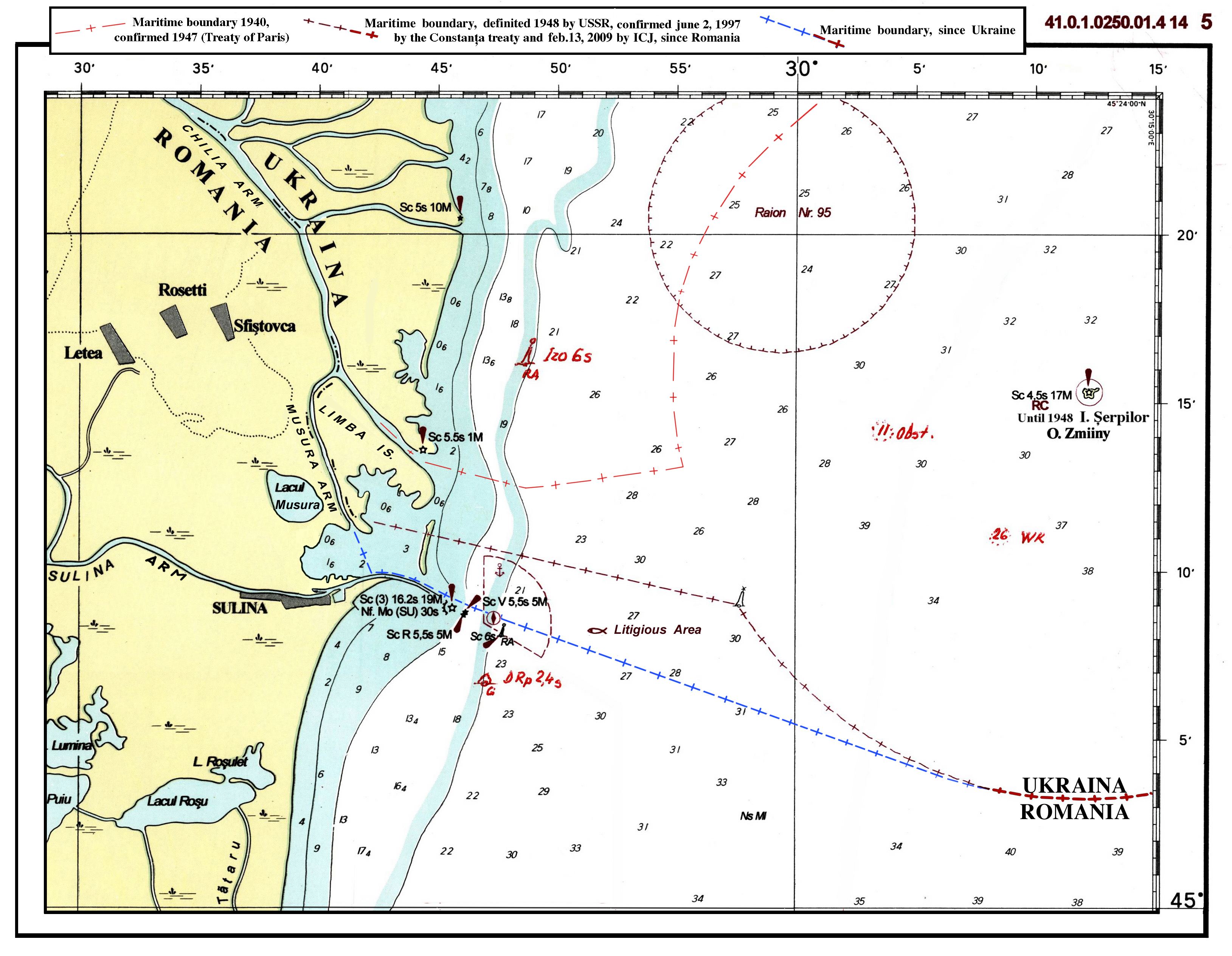 Romanian-Ukrainian maritime boundary in front of the Danube mouths